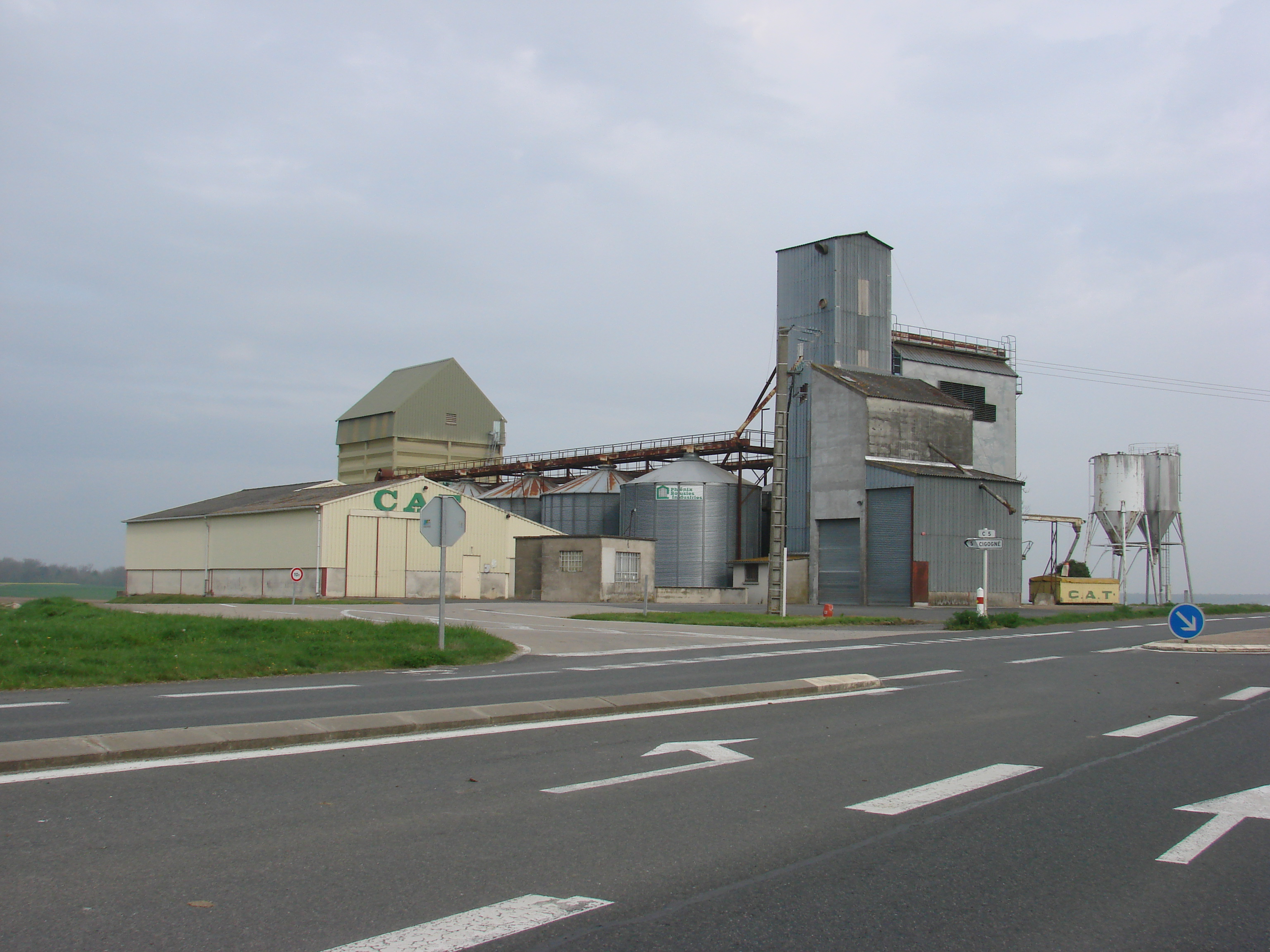 Grain Silo of the Coopérative Agricole la Tourangelle at Sublaines (France, département of Indre-et-Loire)